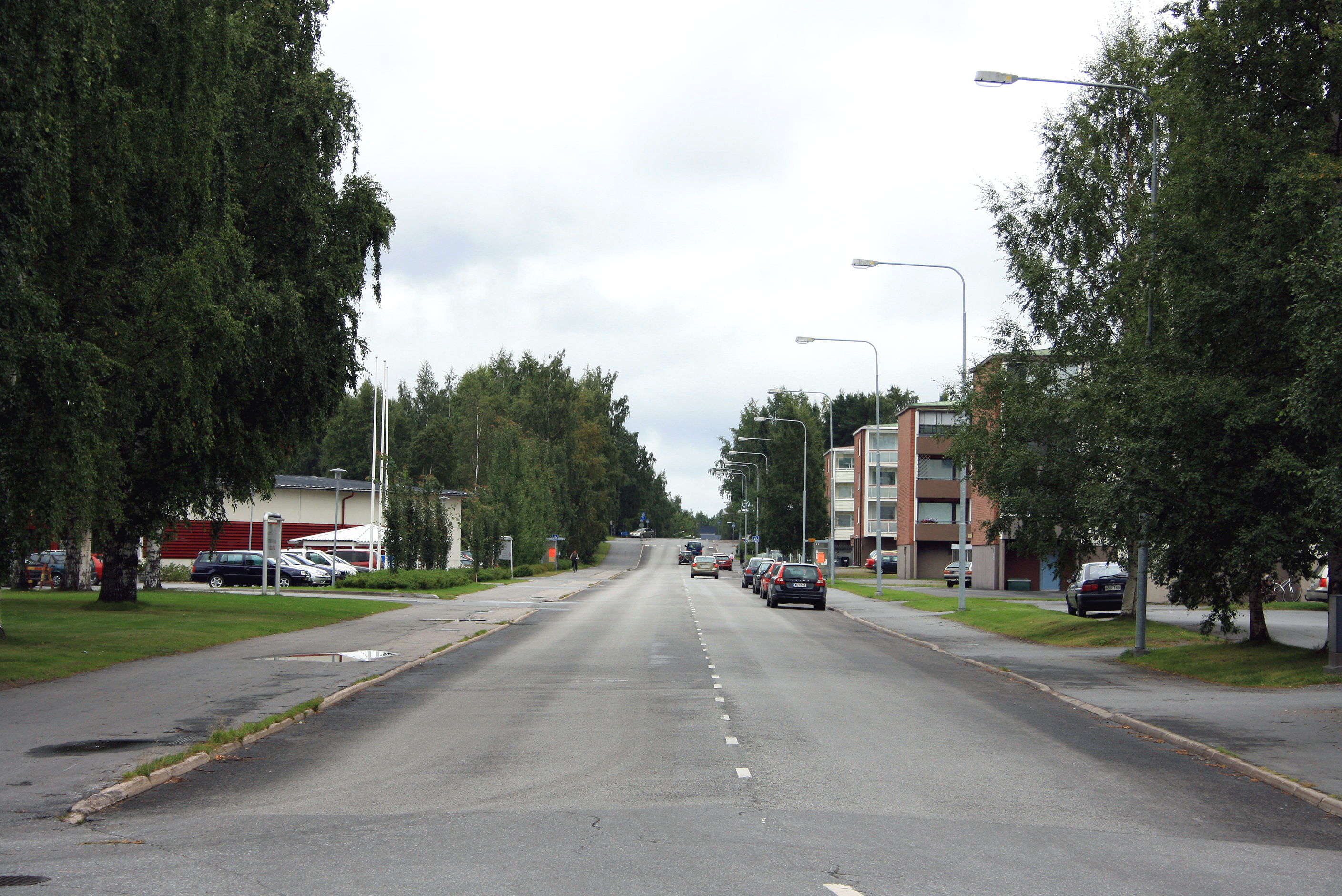 Mariankatu in Kokkola, Finland.